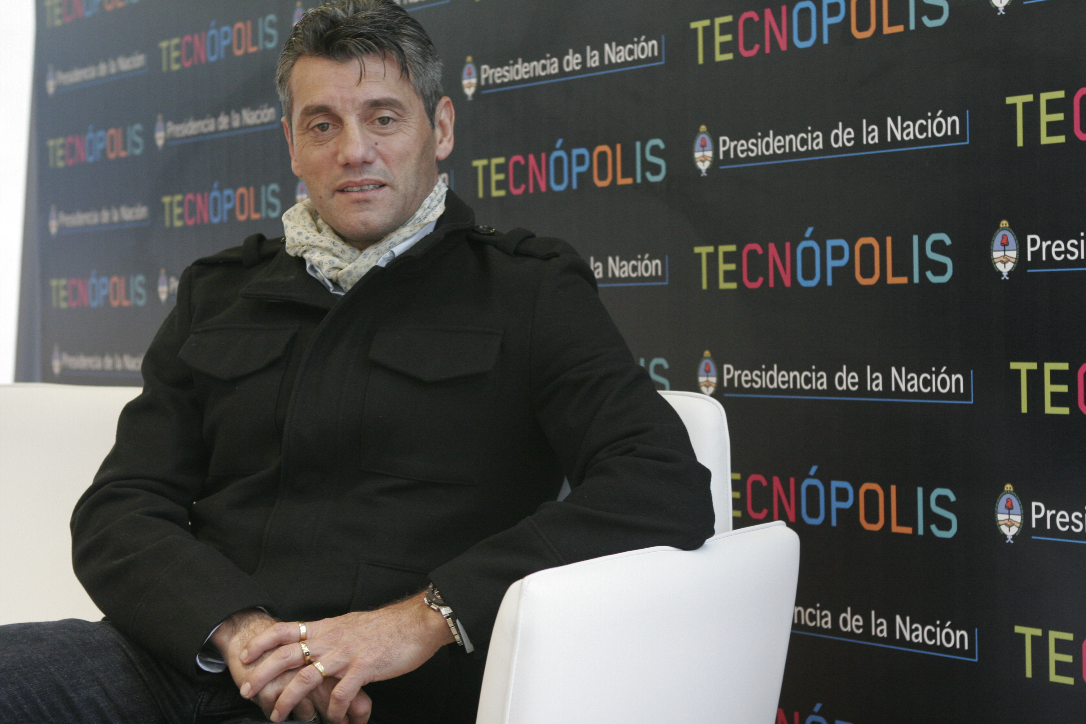 Sergio Goycochea